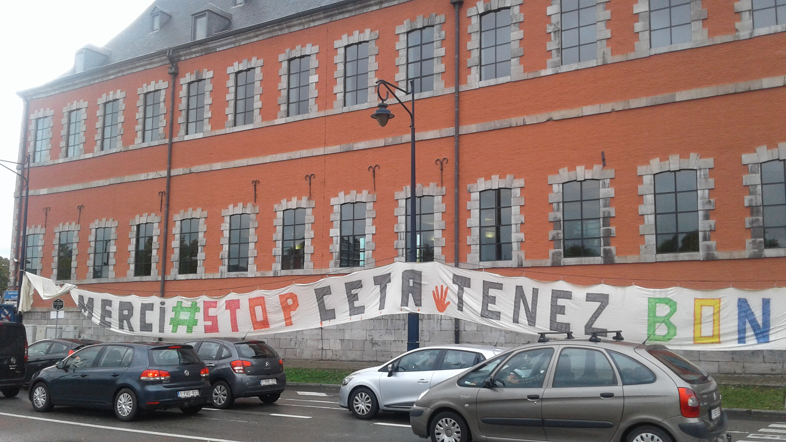 Banner againt the CETA on the Walloon Parliament wall in Namur, Belgium. "Thank you#Stop CETA. Hold on" Walon: Banire di sotnaedje ås rclameus disconte on mwais acoird CETA, divant l' Pårlumint walon, li djoû di dvant l' fén des martchandaedjes.